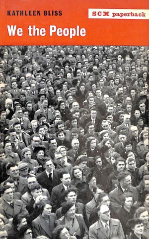 We the People